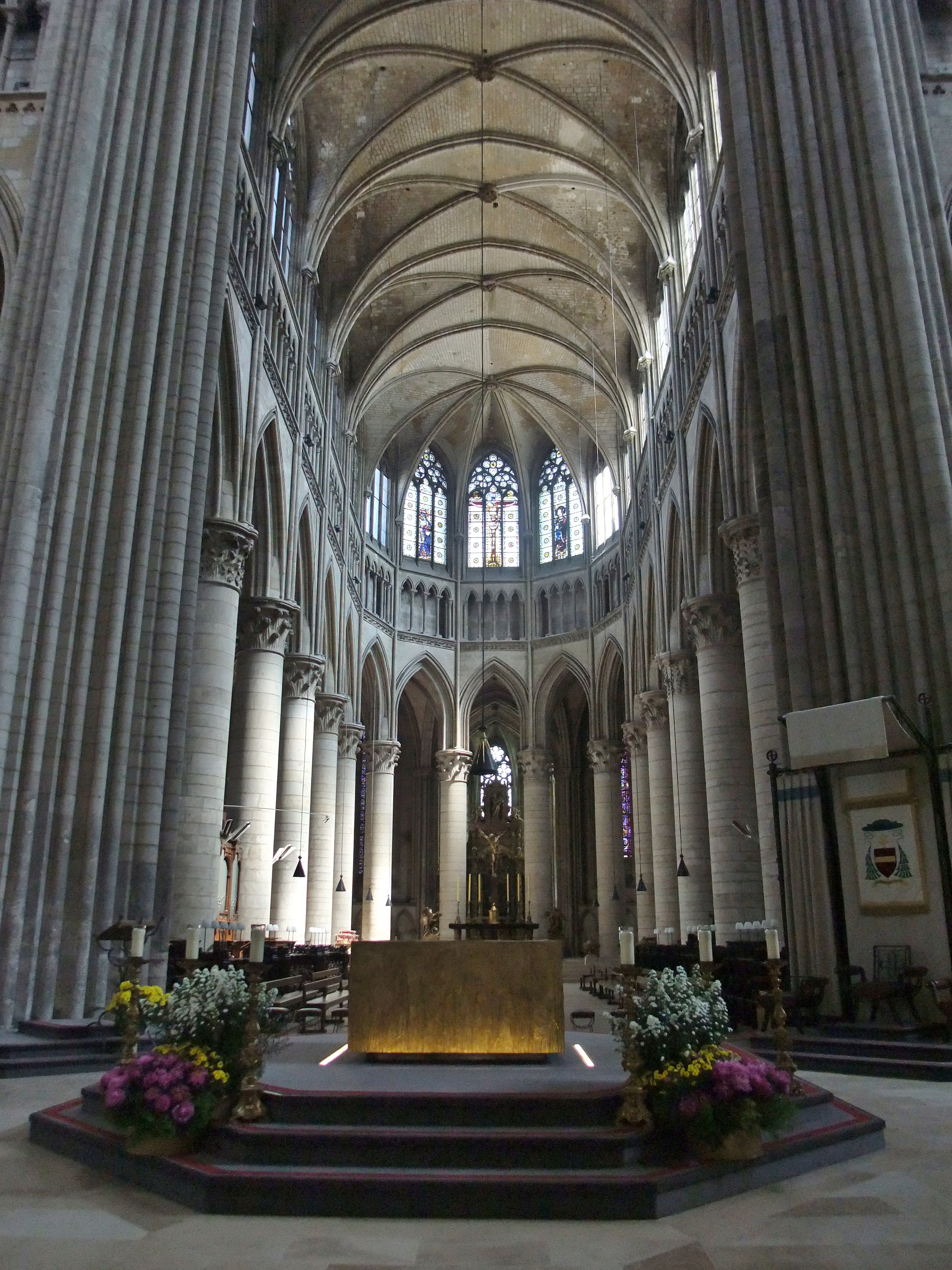 Interior of Cathedral Notre-Dame of Rouen, France